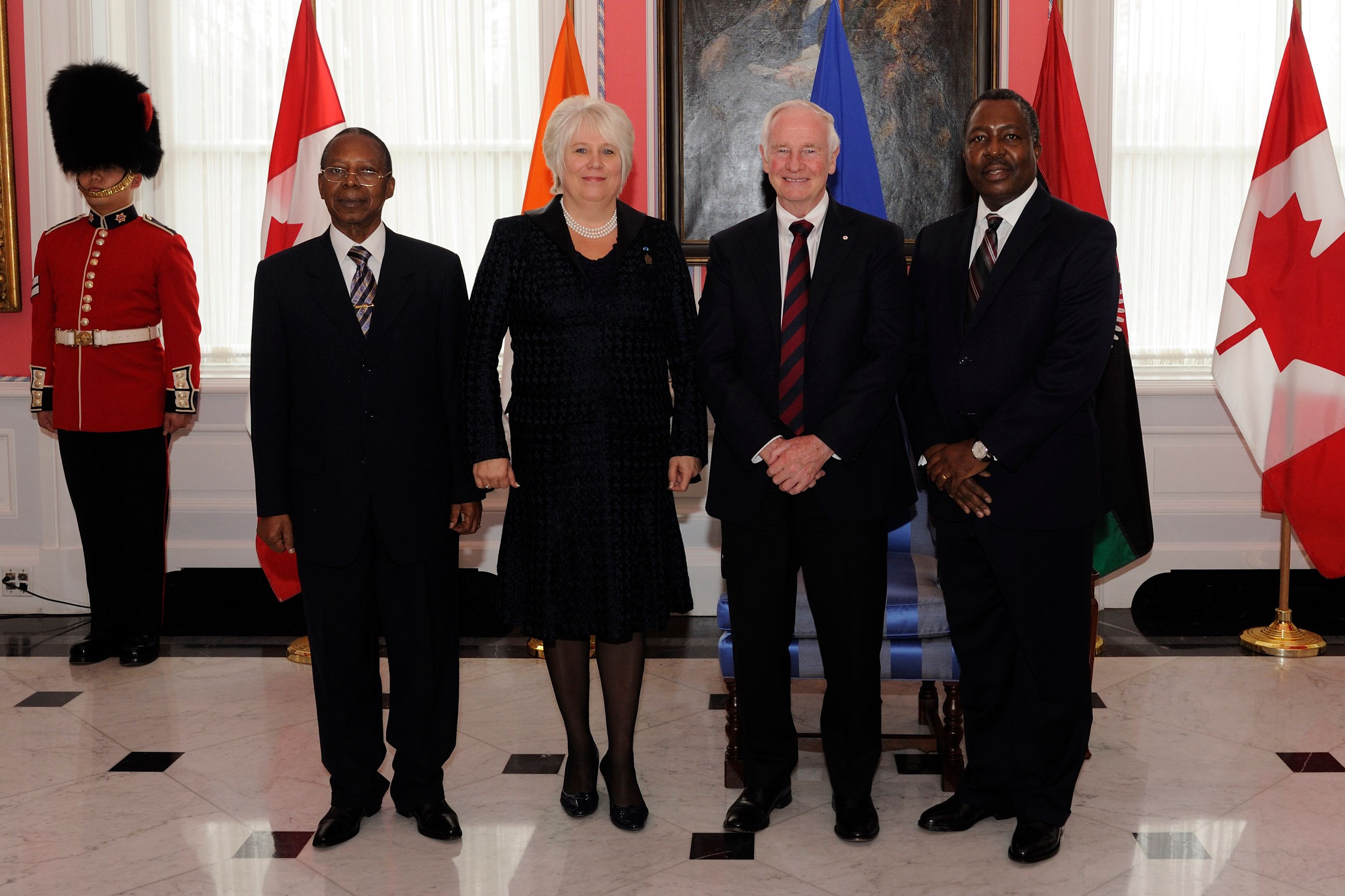 Copyright : The Rideau Hall photographer, MCpl Dany Veillette.